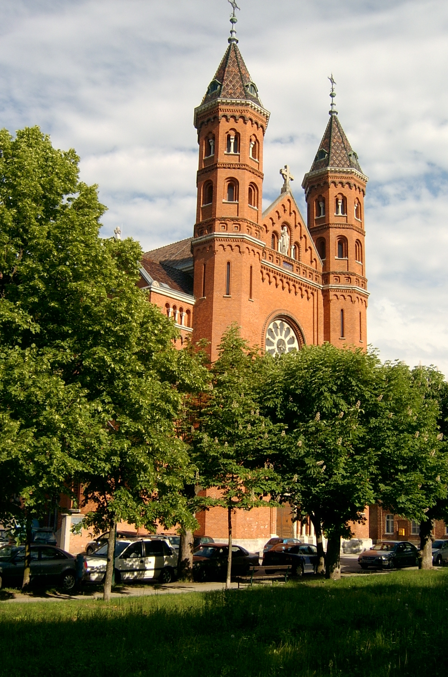 Home of missionary of Sankt Gabriel in Maria Enzersdorf Lower Austria